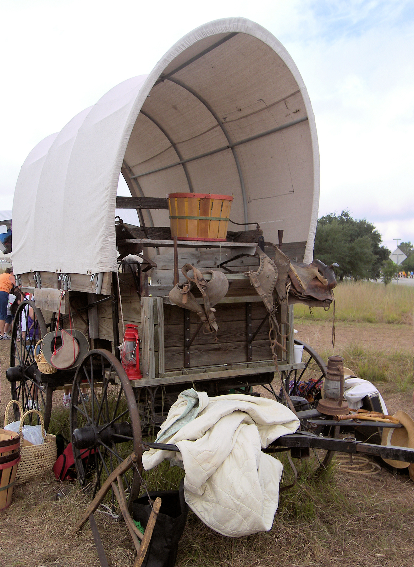 A Covered wagon display at the Texas Parks and Wildlife Expo 2007 at the Texas Parks ans Wildlife Headquarters in Austin, Texas, United States.